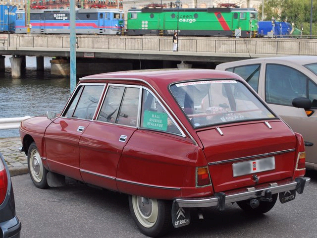 Citroën Ami 8 -71, ch.nr.:08JA9873